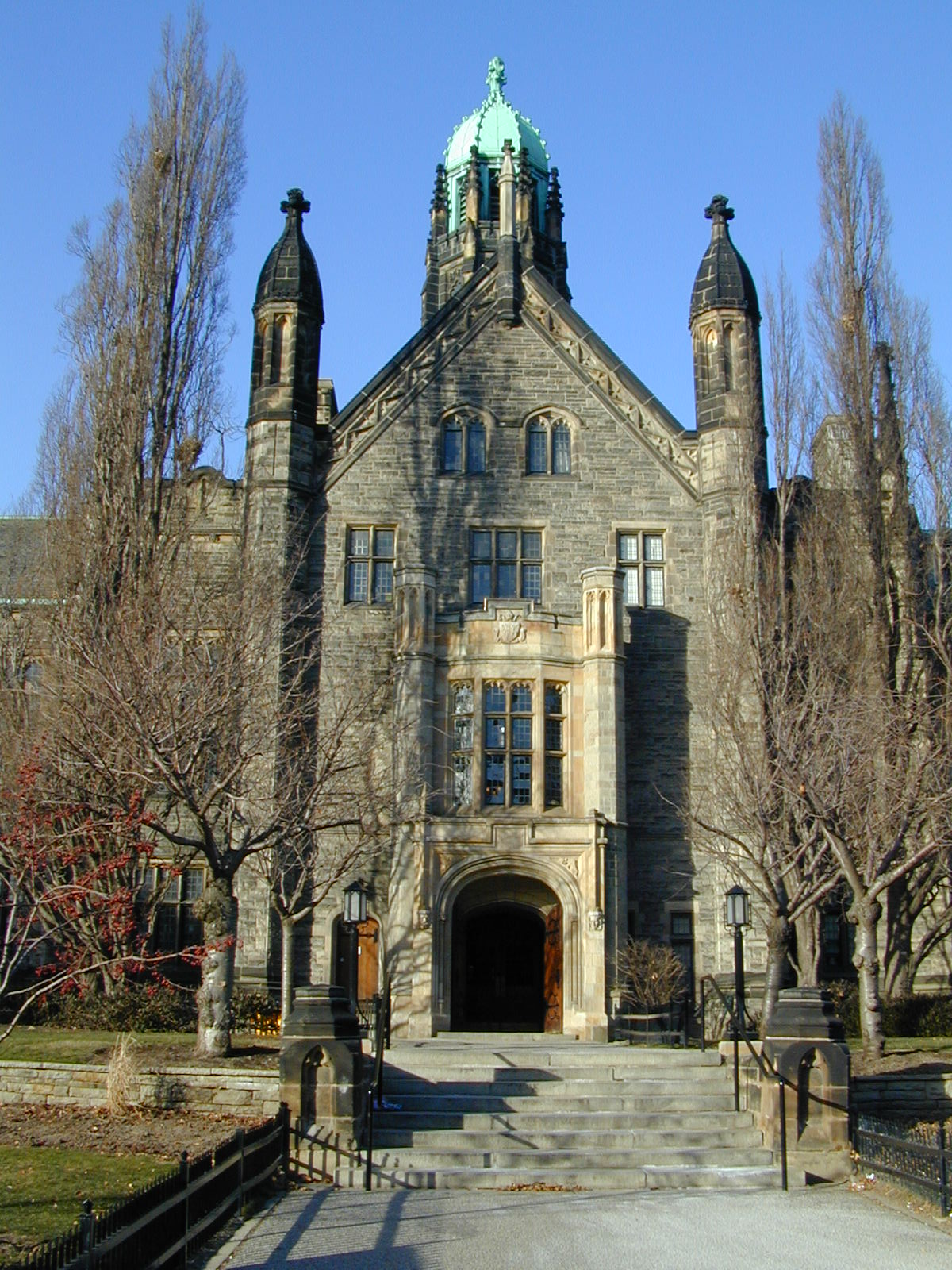 University of Trinity College Main Building, University of Toronto. Photo by paradiso. See Category:University of Toronto buildings.